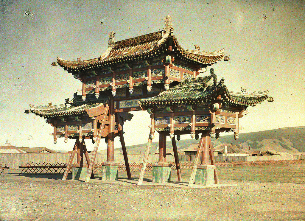 The gate of the Yellow Palace in Khuree — Ulan Bator, Mongolia in 1913.